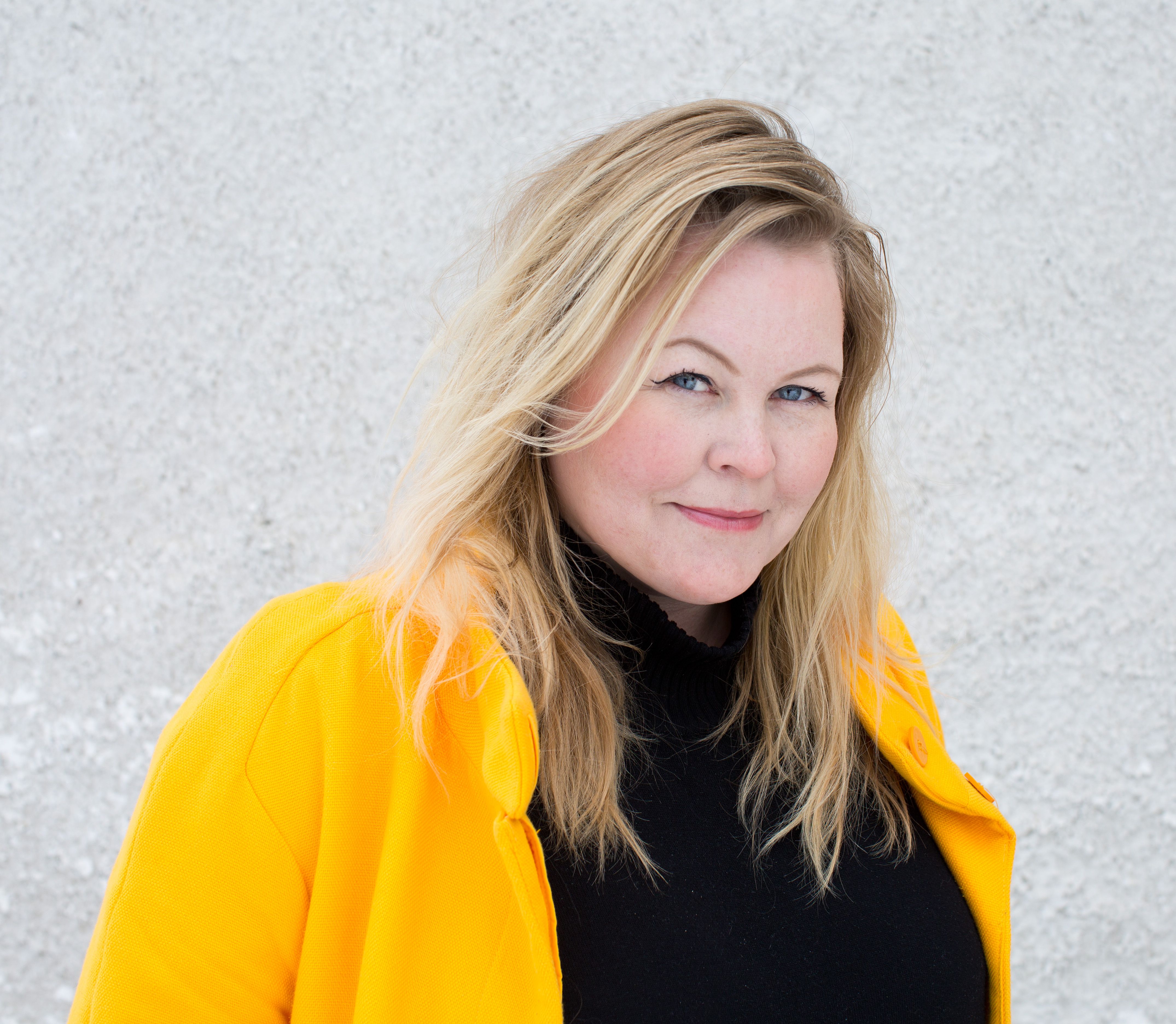 Writer and journalist Erica Dahlgren